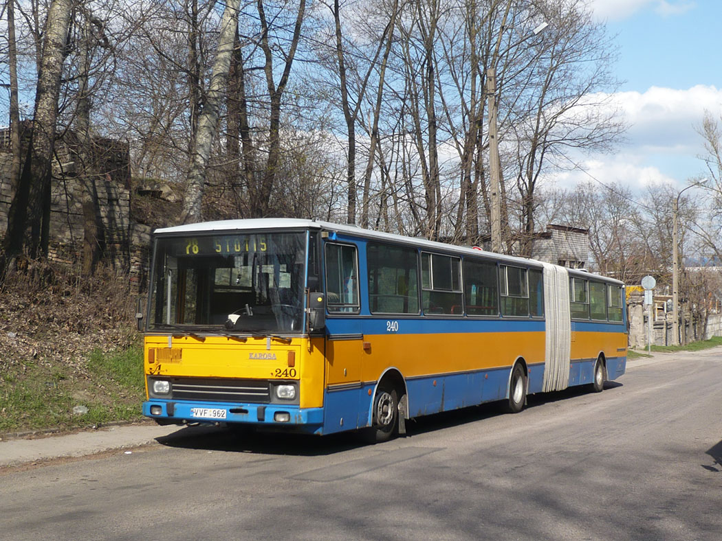 Karosa B 841 in Vilnius, Lithuania.